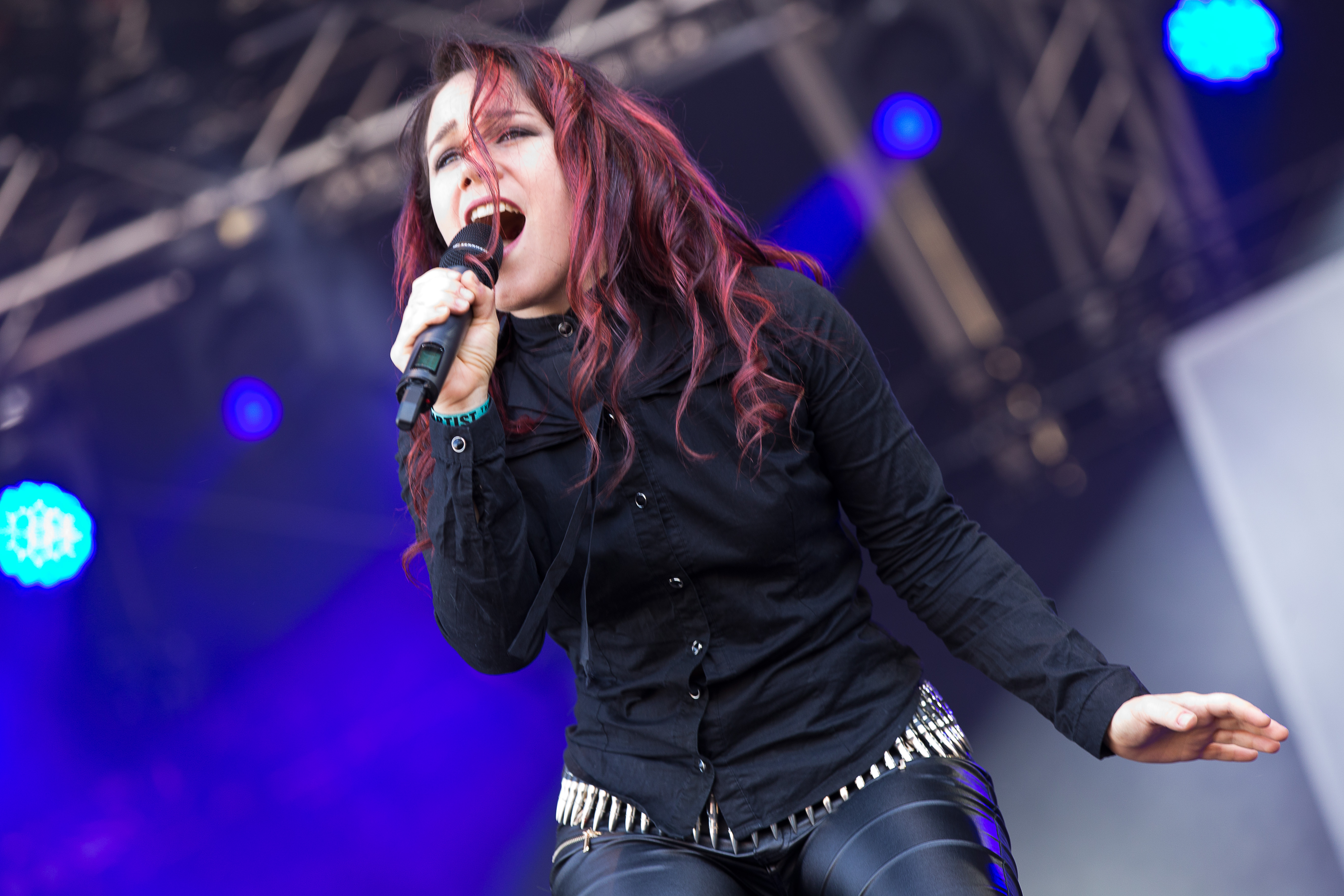 The German melodic death metal band Deadlock at the Rockharz Open Air 2016 in Ballenstedt/Germany.